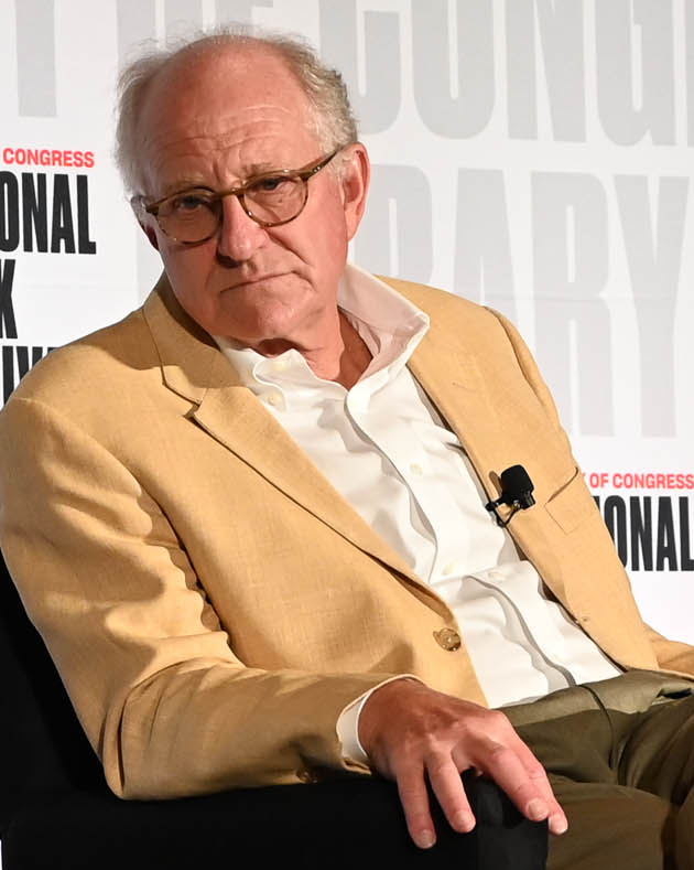 Steven Pearlstein speaks on a panel moderated by David Rubenstein on the National Book Festival's Understanding Our World Stage, August 31, 2019. Photo by David Critics/Library of Congress. Note: Privacy and publicity rights for individuals depicted may apply.